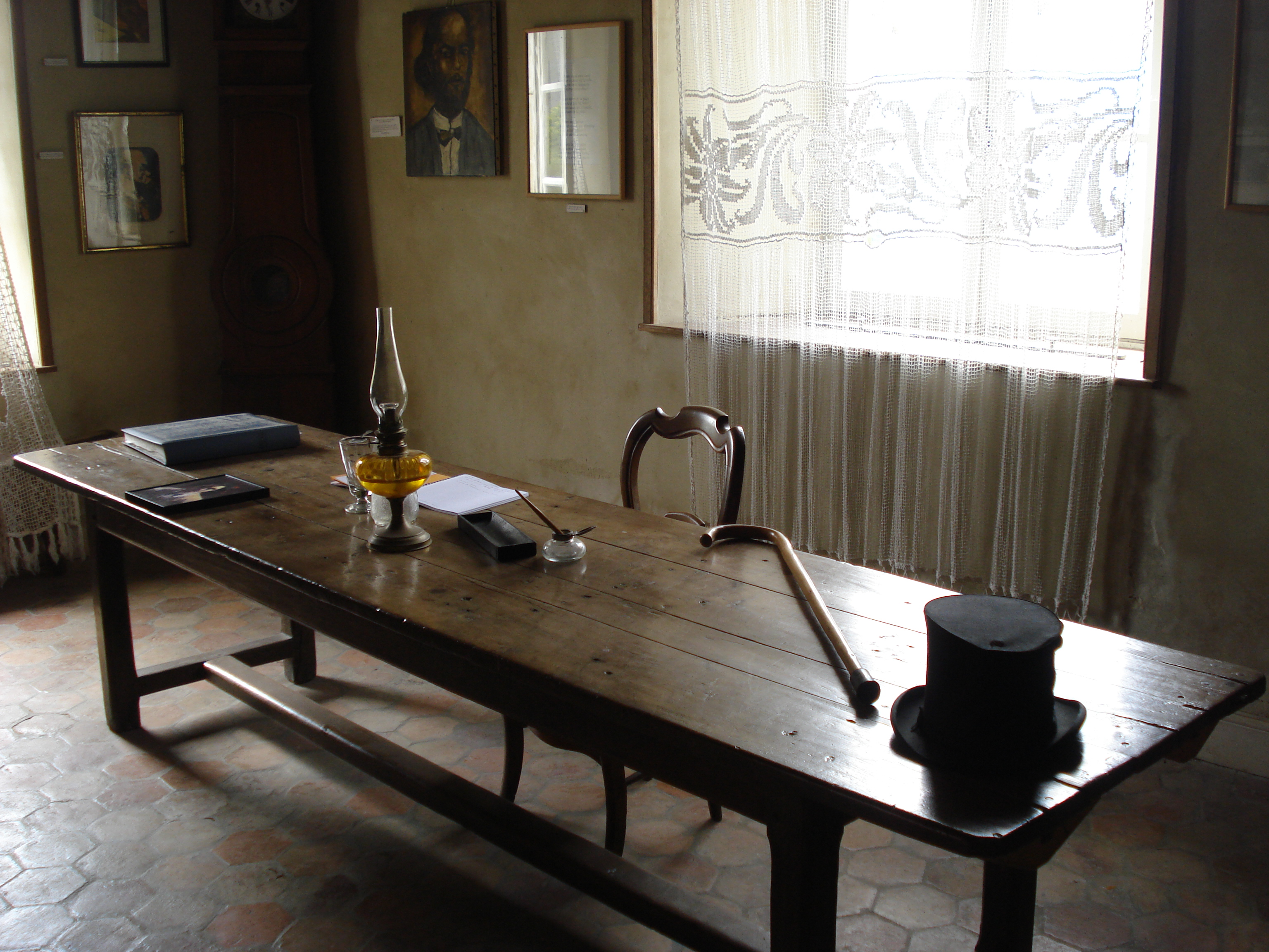 Juniville, Musée Verlaine à l'intérieur.